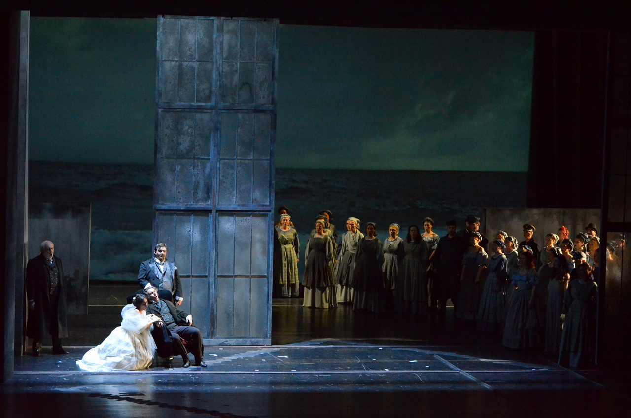 "Simon Boccanegra ", an opera with a prologue and three acts by Giuseppe Verdi to an Italian libretto by Francesco Maria Piave, based on the play Simón Bocanegra (1843) by Antonio García Gutiérrez; directed by Caterina Panti Liberovici; Opera of the Serbian National Theatre, Novi Sad, 2013/14. Srpski (latinica): „Simon Bokanegra”, opera sa prologom u tri čina Đuzepe Verdija sa libretom Italijana Frančeska Maria Pjave Opera SNP, Novi Sad, 2013/14. prema istoimenoj drami (iz 1843) Antonija Garsije Gutijeresa u režiji Katerine Panti Liberoviči; Opera Srpskog narodnog pozorišta, Novi Sad, 2013/14. Српски (ћирилица): „Симон Боканегра“, опера са прологом у три чина Ђузепе Вердија са либретом Италијана Франческа Мариа Пјаве Опера СНП, Нови Сад, 2013/14. према истоименој драми (из 1843) Антонија Гарсије Гутијереса у режији Катерине Панти Либеровичи; Опера Српског народног позоришта, Нови Сад, 2013/14.